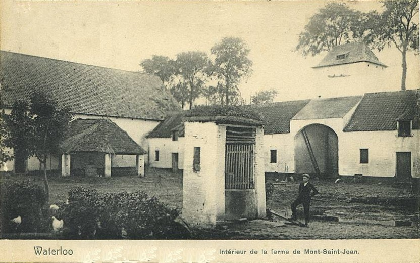 Mont Saint Jean Farm near the Waterloo site (Braine l'Alleud). The inner yard. Belgium. Postcard stamped 1909.